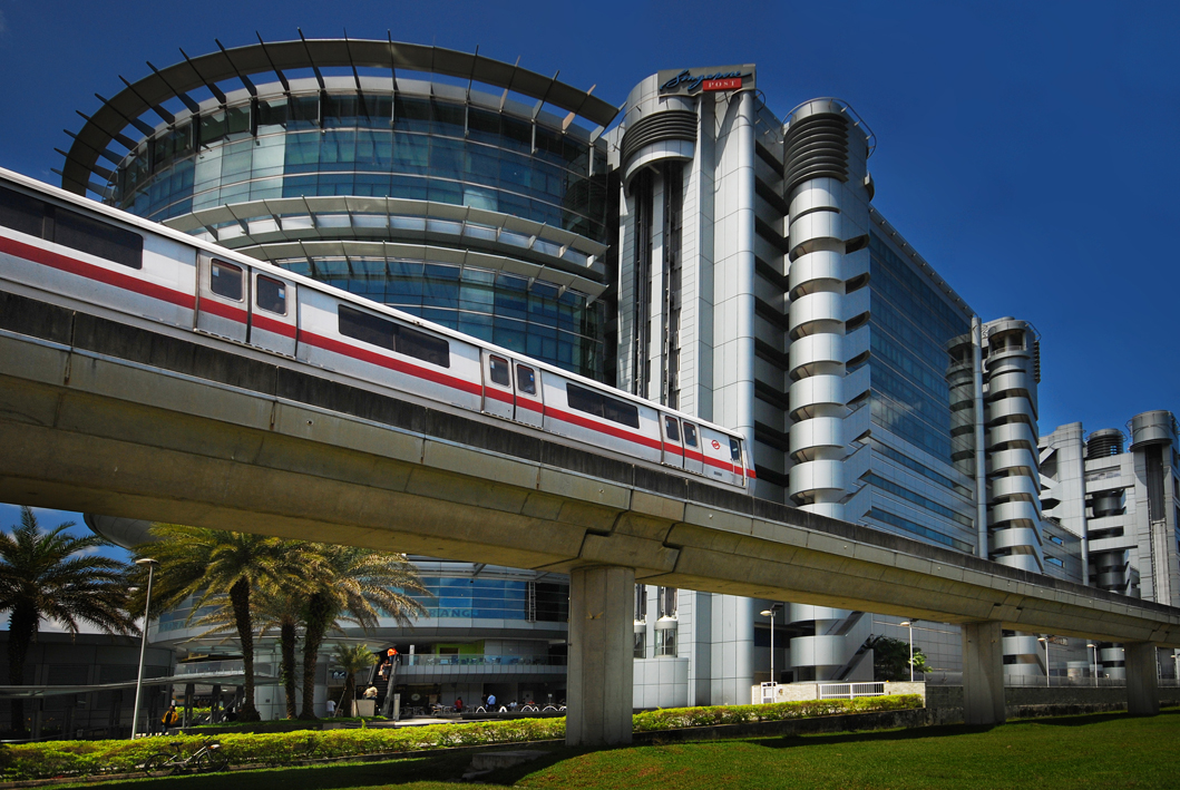 The Central Post Office at Paya Lebar. On the foreground is the MRT track. My first test with a 10-20mm lens.